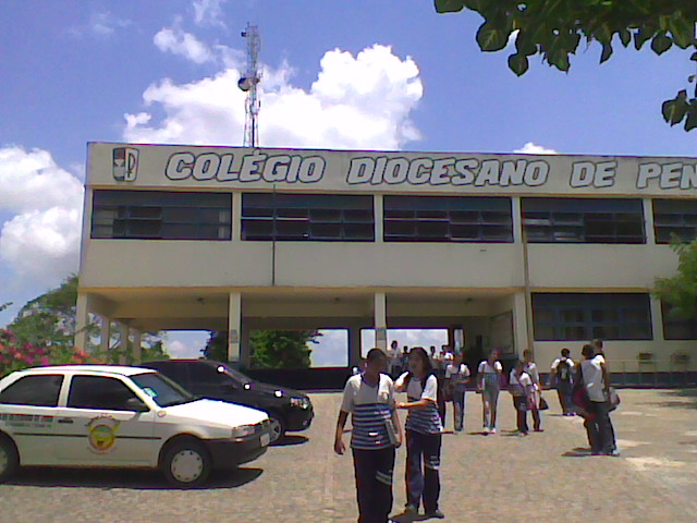 A picture of the Colégio Diocesano de Penedo, which is a school in the municipality of Penedo — Alagoas, Brazil.